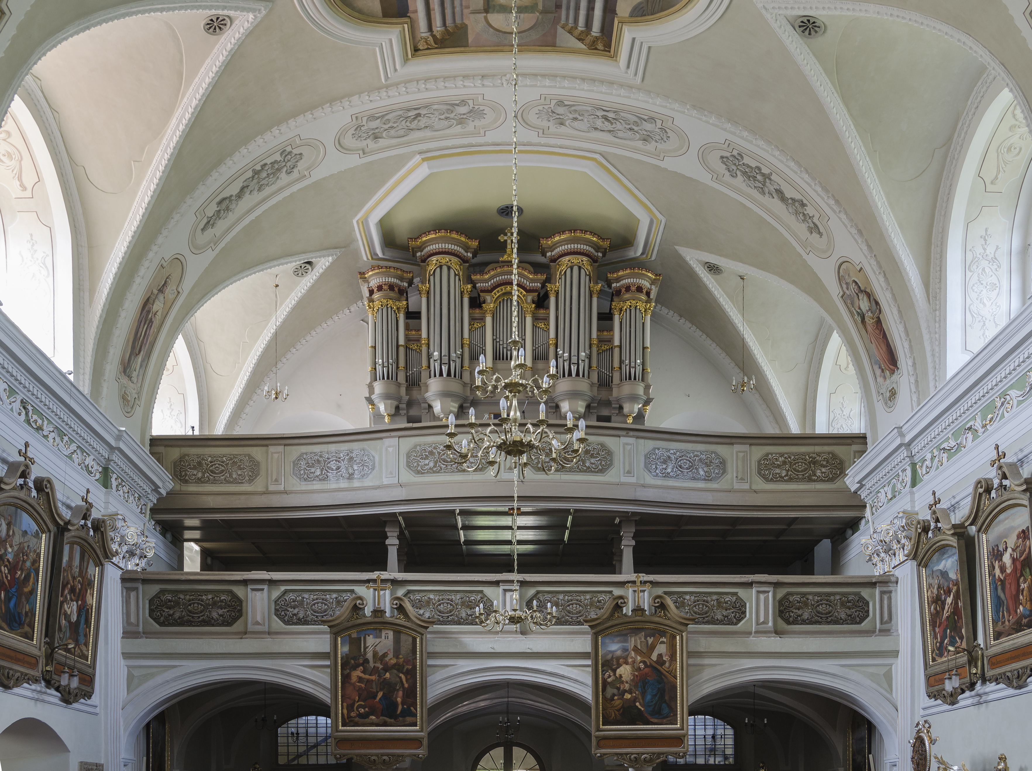 Church of the Nativity of the Virgin Mary in Lądek-Zdrój, matroneum